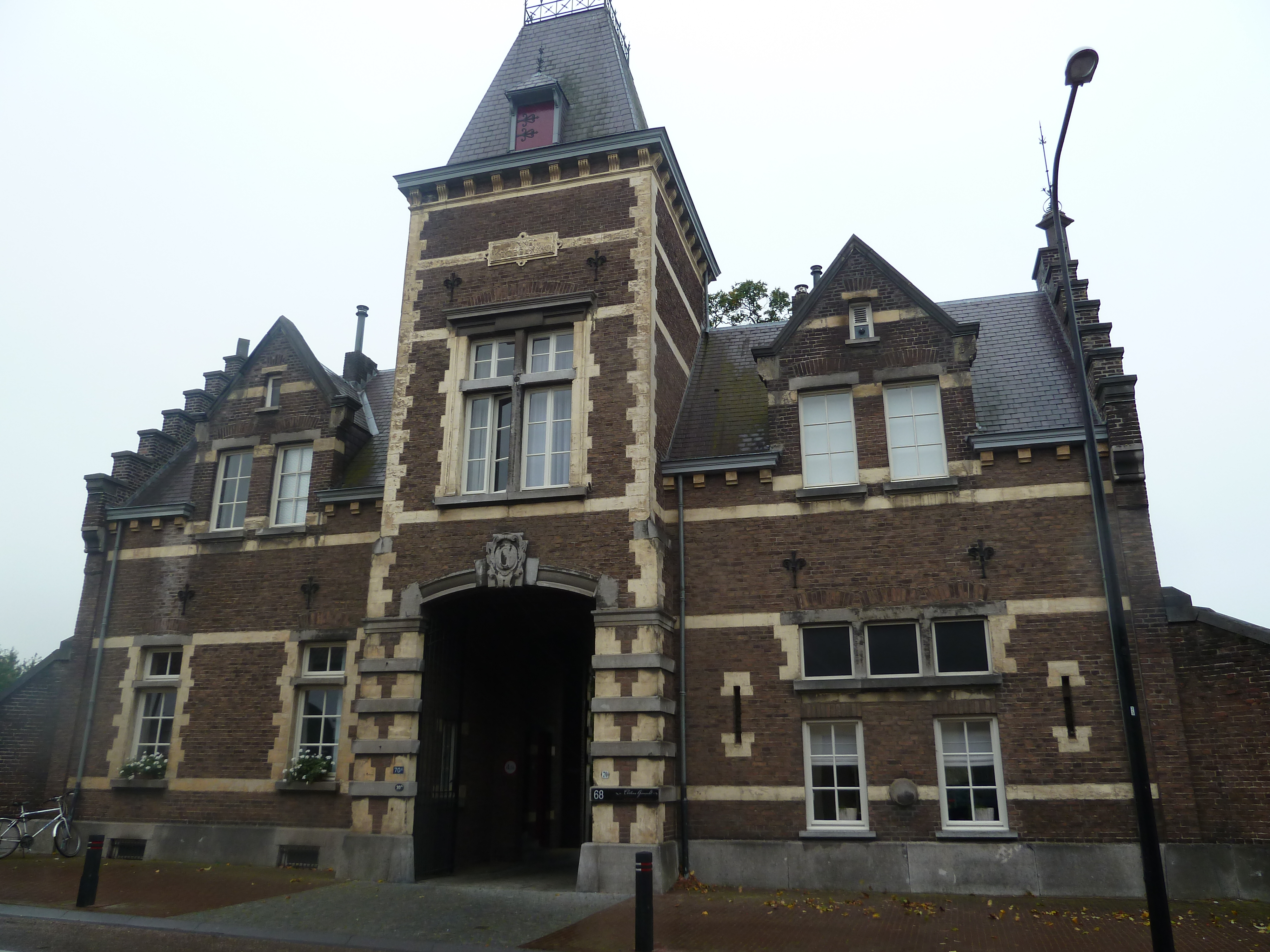 Gate-building castle, Gronsveld, Limburg, the Netherlands